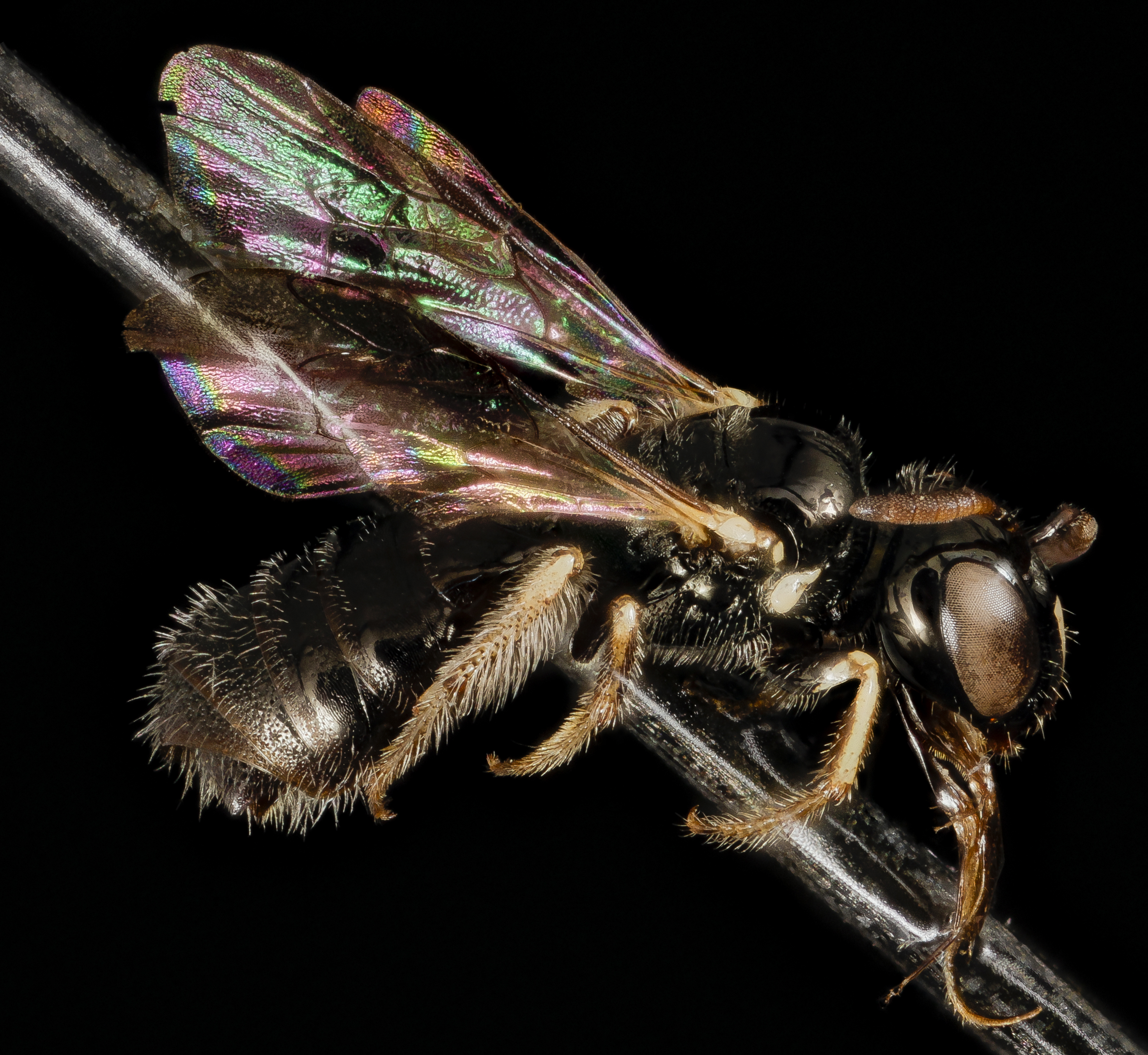 Ceratina arizonensis from the Zuma Canyon in the Santa Monica National Recreation Area in coastal California. Almost all Ceratina have that white stripe (or some greater embellishment thereof) on their face and are relatively hairless, perhaps because of their lifestyle in the pith of plant stems. Photography Information: Canon Mark II 5D, Zerene Stacker, Stackshot Sled, 65mm Canon MP-E 1-5X macro lens, Twin Macro Flash in Styrofoam Cooler, F5.0, ISO 100, Shutter Speed 200